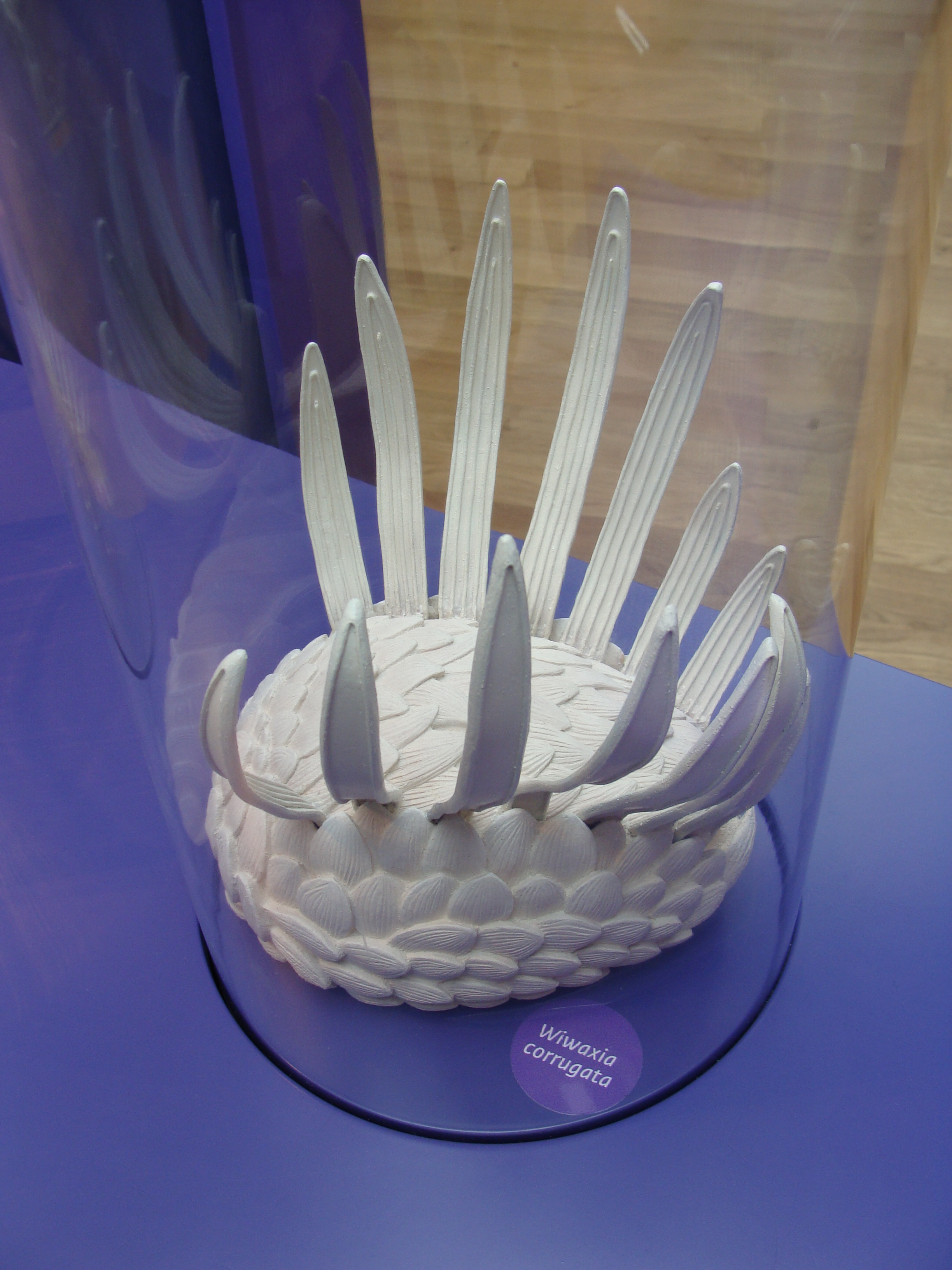 Wiwaxia corrugata in the Royal Belgian Institute of Natural Sciences.